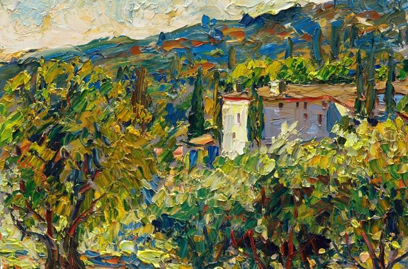 Auteur mort en 1929